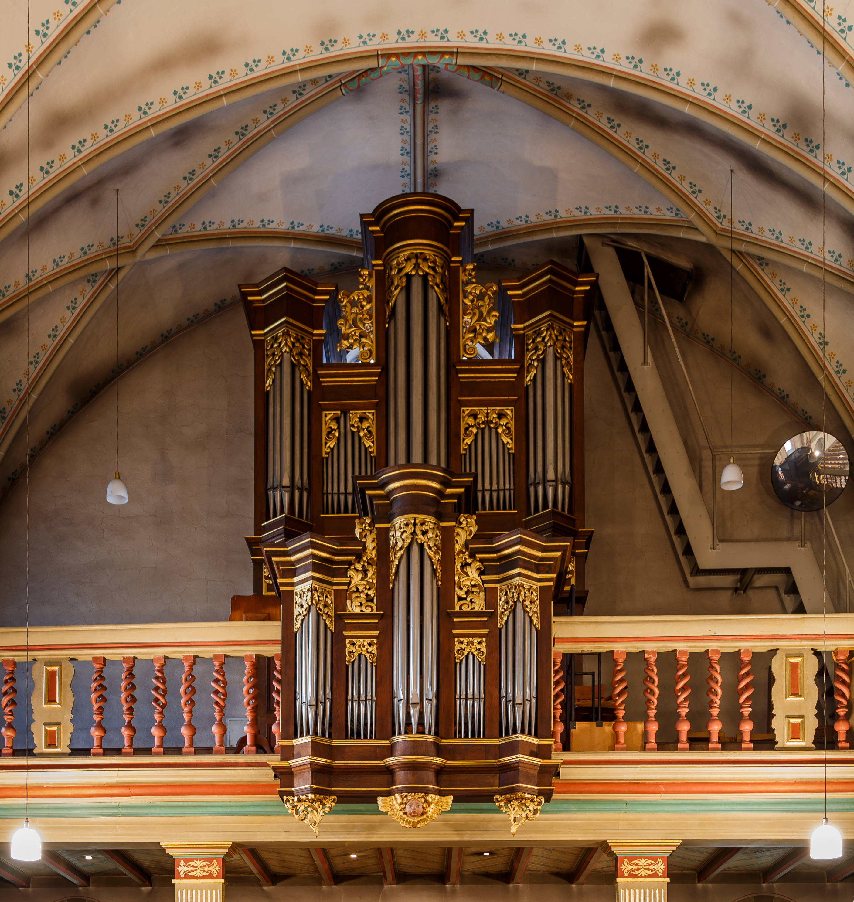 Rösrath, Listed monument number 42, Hauptstrasse 62: Pfarrkirche St. Nikolaus von Tolentino - Stahlhuth organ. The lower case of the organ is from 1721, the upper case from 1911. The instrument was bought from Stahlhut Company in 1964, replacing the organ from 1911 which was built by the same company. This is a photograph of an architectural monument.